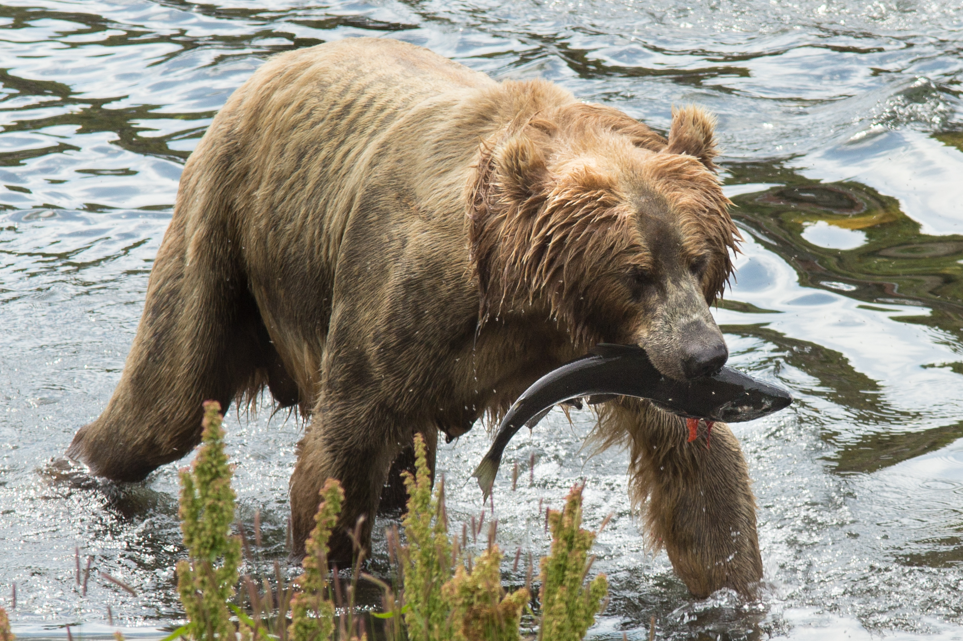 Kodiak brown bear with fish